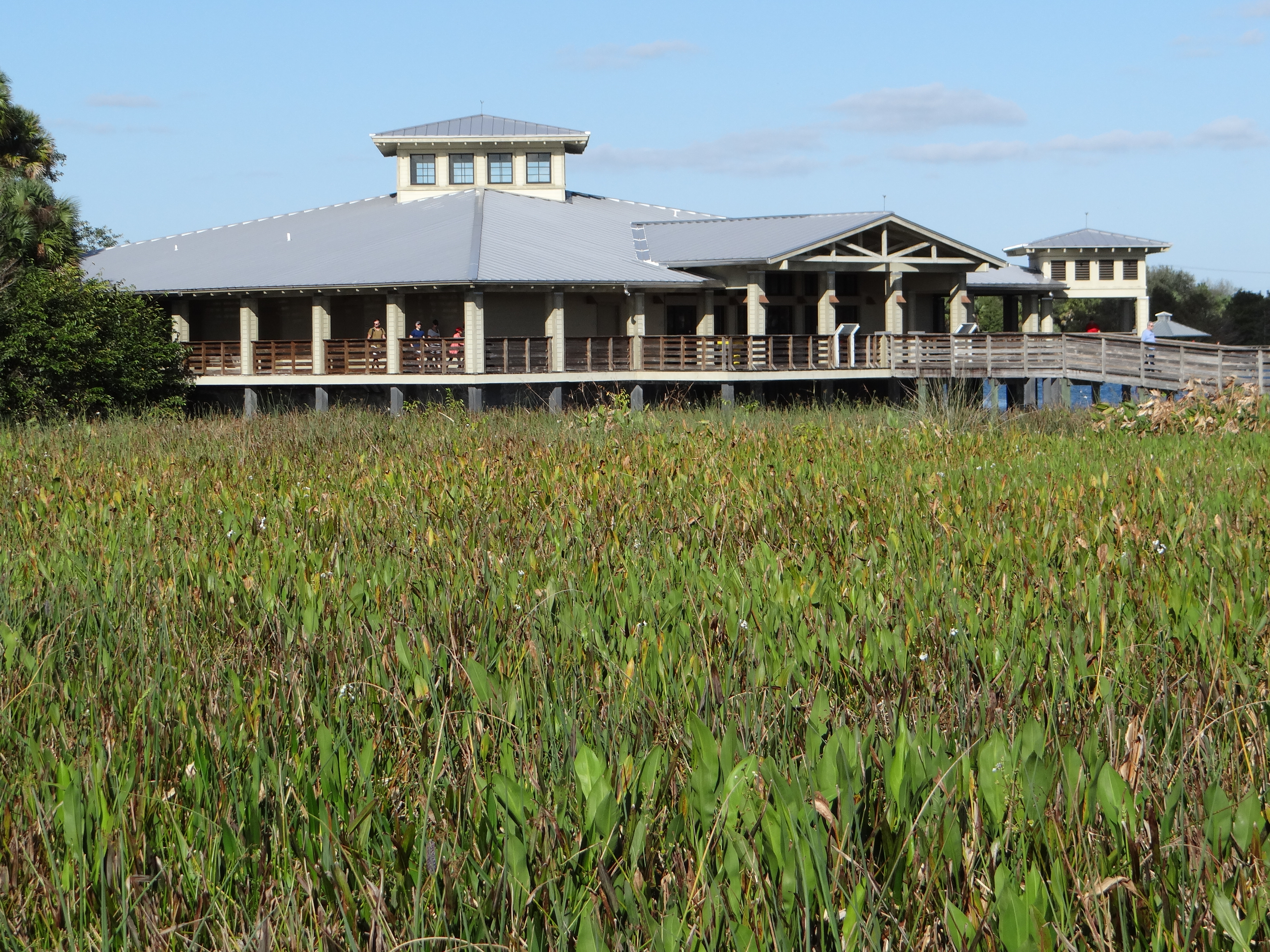 Green Cay Wetlands and Nature Center is a nature preserve located in Boynton Beach, Florida. Photography by David Adam Kess